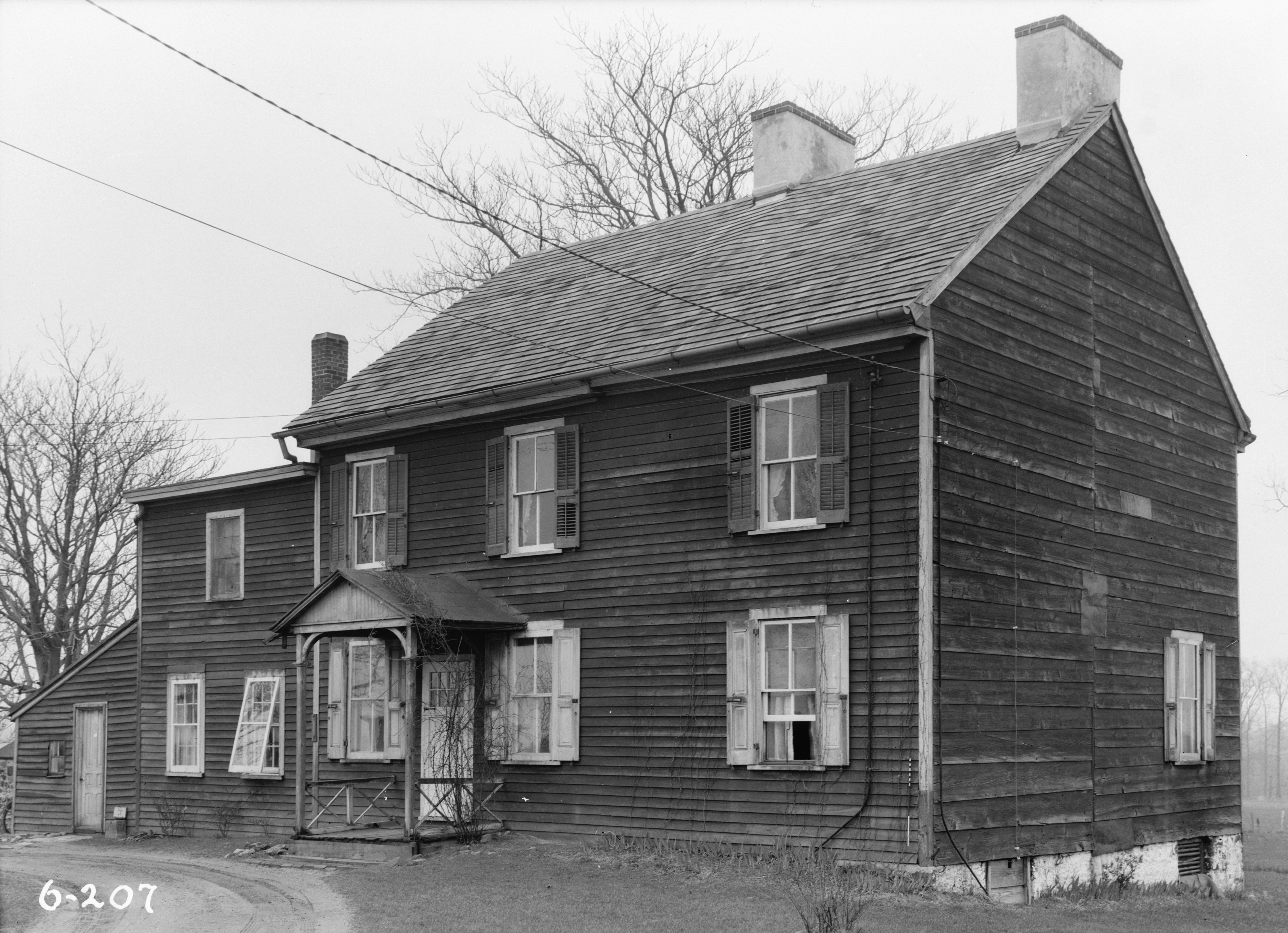 Trimmed version of Historic American Buildings Survey Nathaniel R. Ewan, Photographer April 10, 1936 EXTERIOR - NORTHWEST ELEVATION - Gill Homestead at Tavistock, Tavistock, Camden County, NJ HABS NJ,4-TAV,1-1.tif